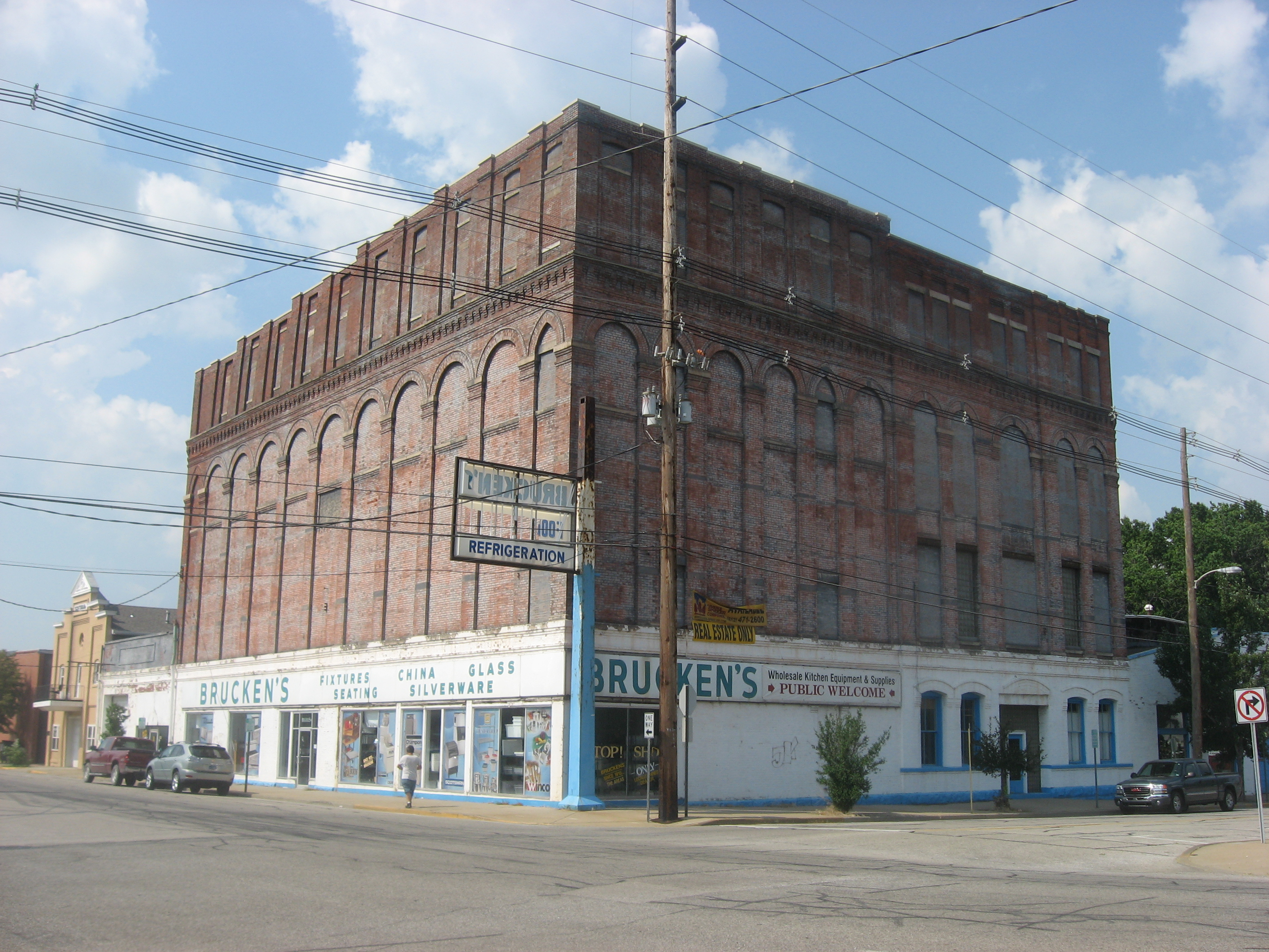 Front and southeastern side of the Evansville Brewing Company, located at 401 NW. Fourth Street in Evansville, Indiana, United States. Built in 1891, it is listed on the National Register of Historic Places.